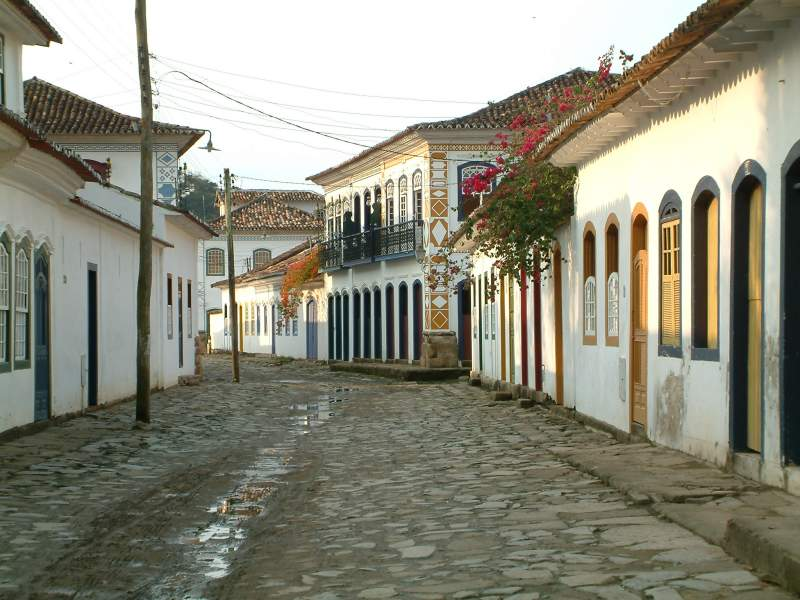 Street view in Paraty